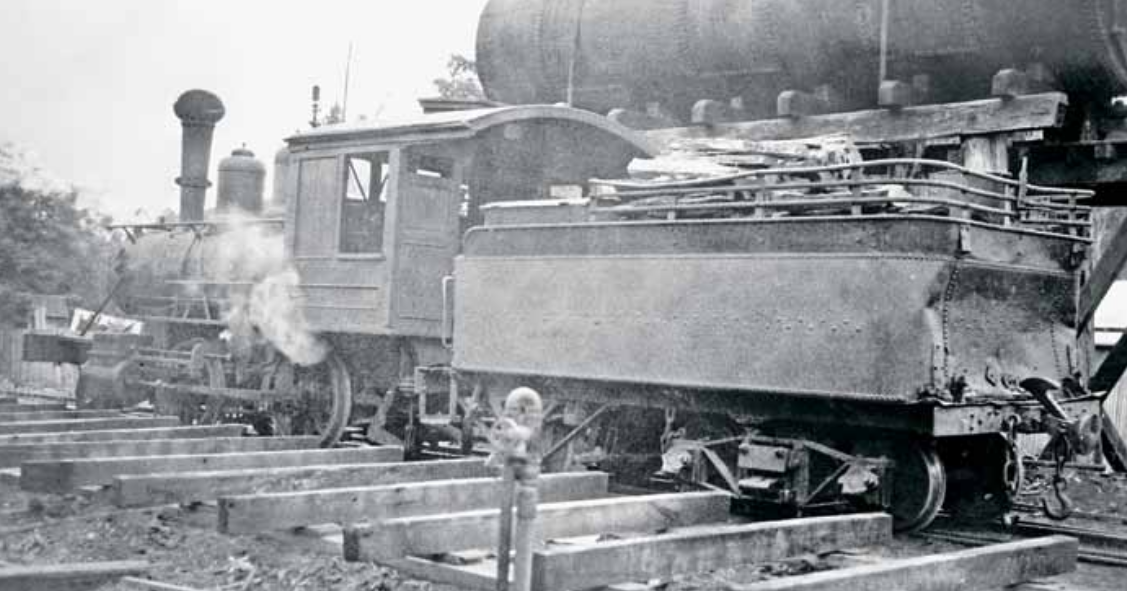 'Little Yarra' Baldwin 3ft gauge 2-4-0 (B/No. 37718 of 1912) at Powelltown, c. 1937. The back of the tender has been dented as a result of a shunting accident, and the rails on the top of the tender have become very battered.